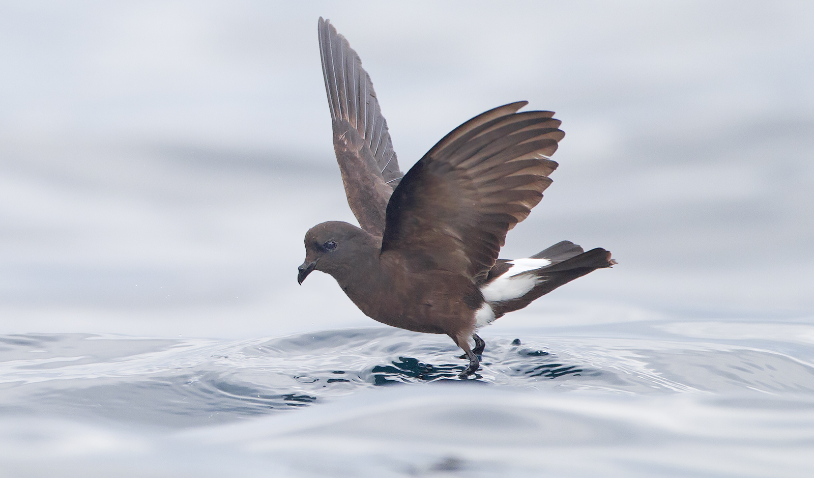 Wilson's Storm Petrel (Oceanites oceanicus), East of the Tasman Peninsula, Tasmania, Australia